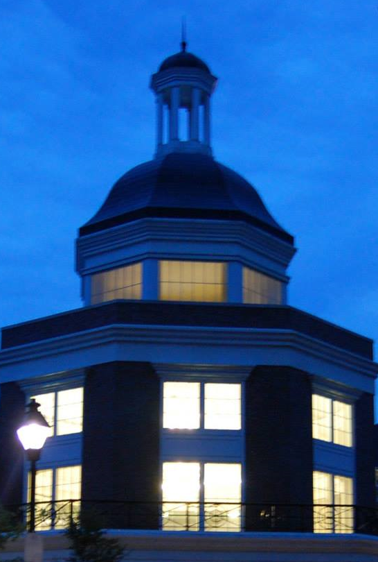 This open domed room anchors the student union building atop the hillside where the Hocking River had cut.